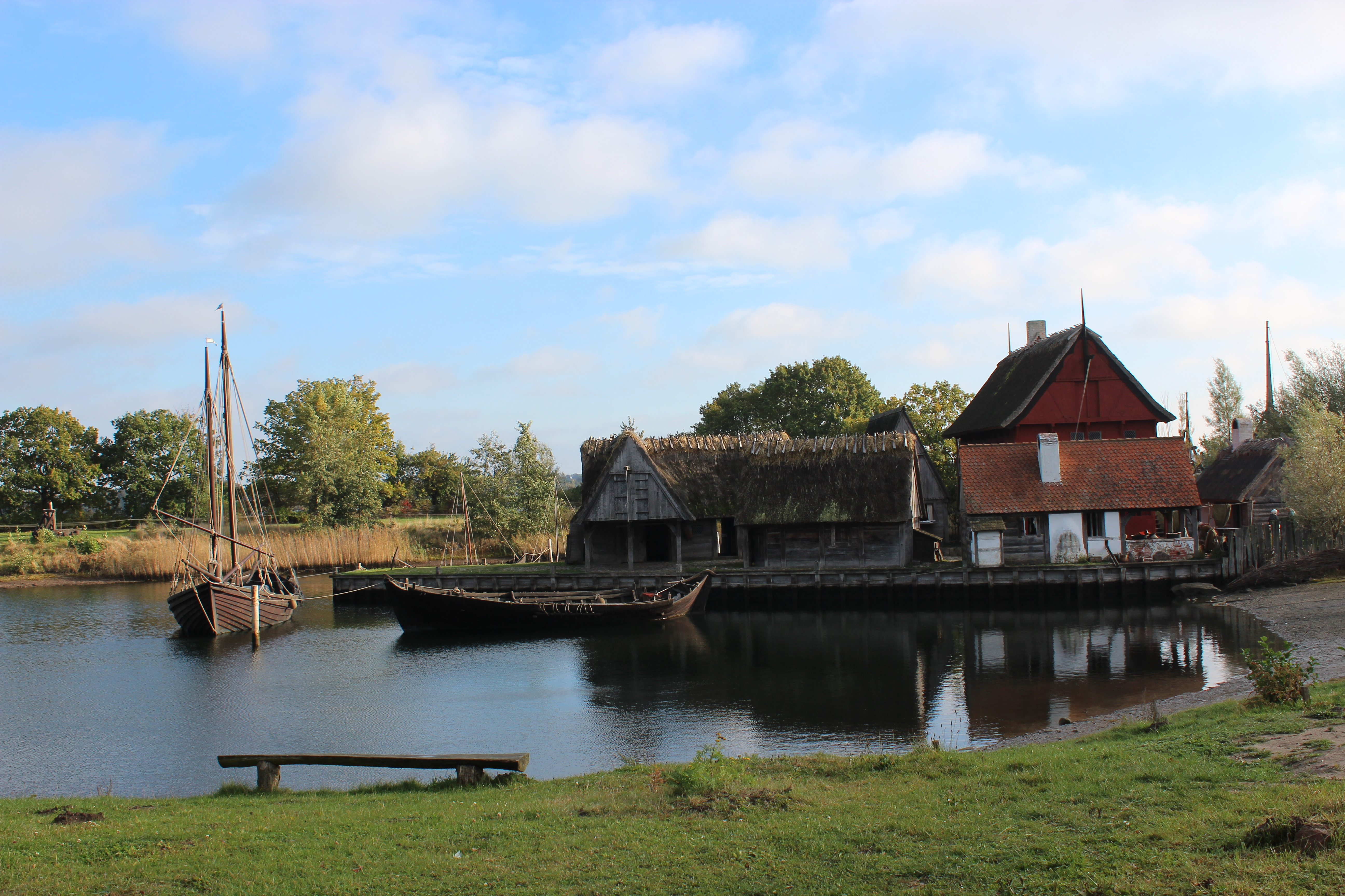 View over the harbour at Middelaldercentret in Sundby, Lolland, Denmark